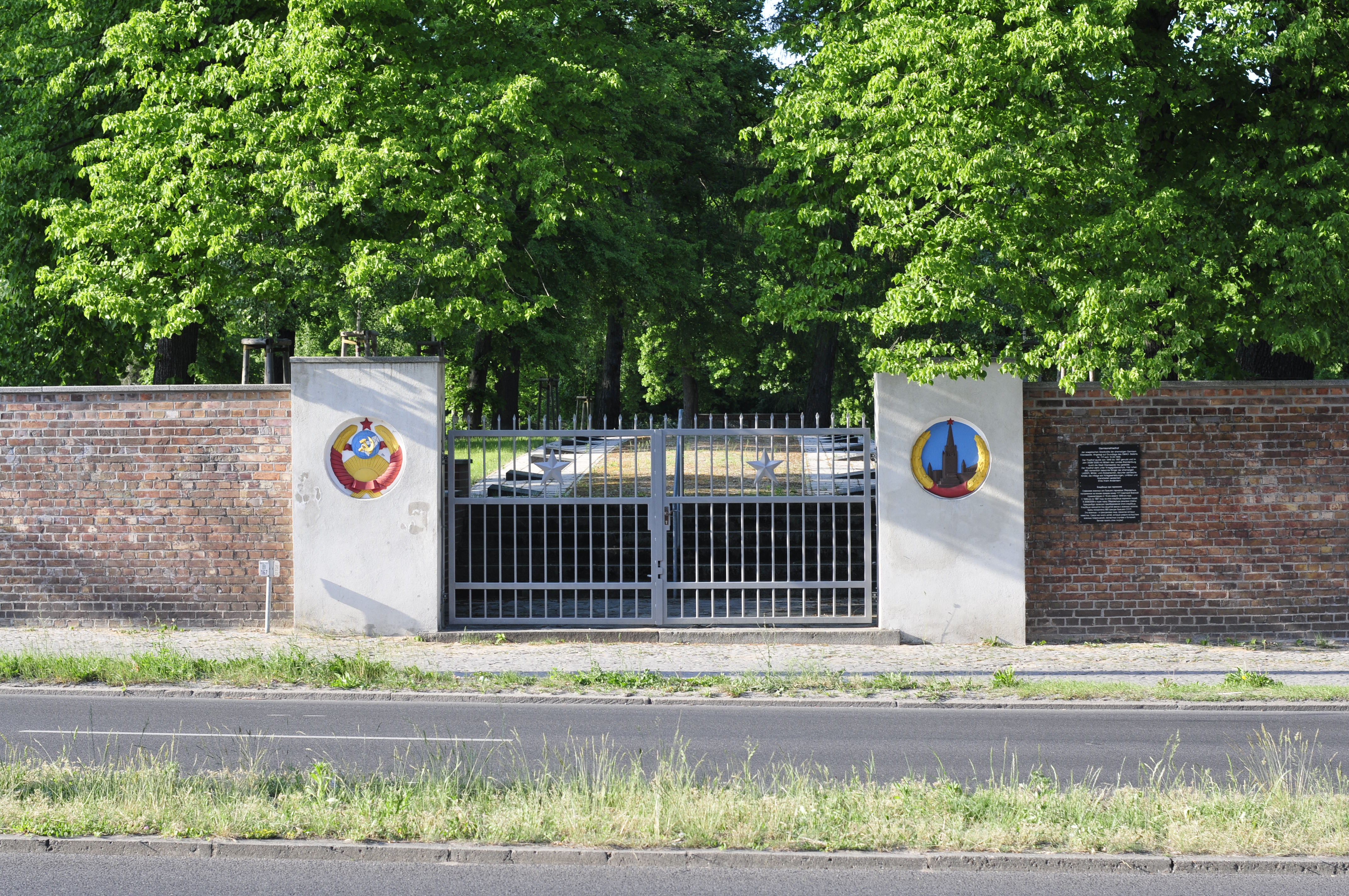 soviet cementery in Eberswalde, Germany